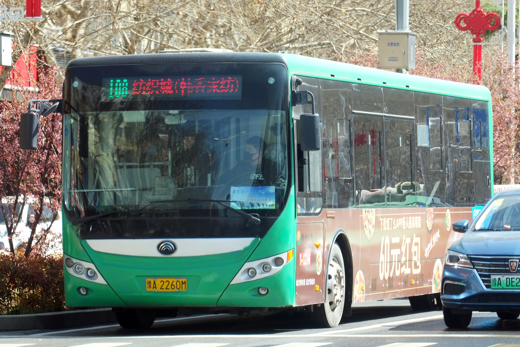 Yutong E10 on Zhengzhou Bus Route 108